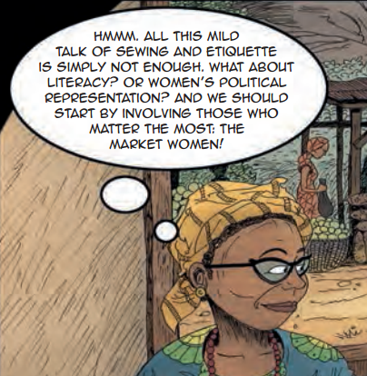 Funmilayo Ransome-Kuti And The Women’s Union of Abeokuta Comic strip Illustrations: Alaba Onajin Script and text: Obioma Ofoego - Published by UNESCO with share alike license